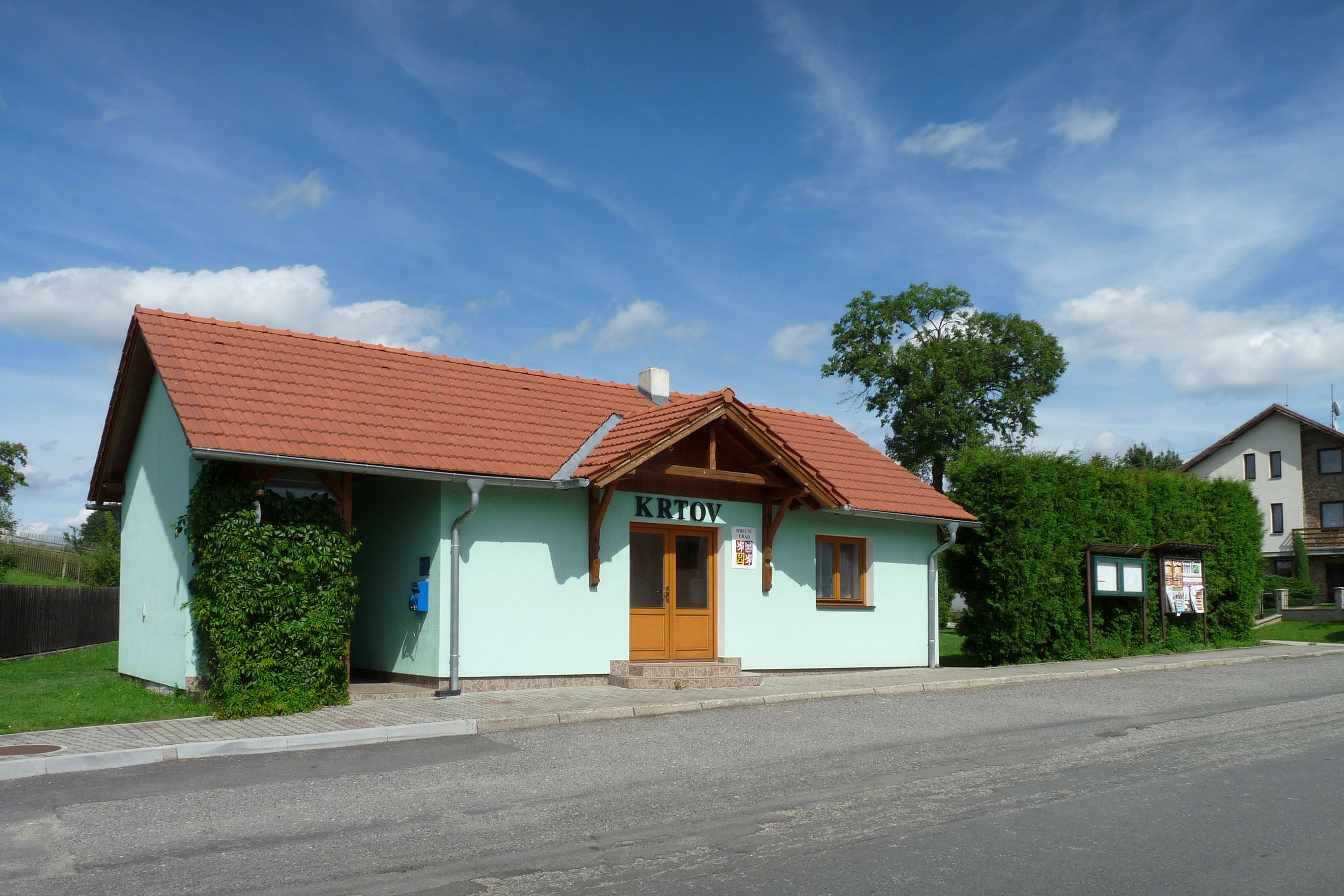 Municipal office building in the village of Krtov, Tábor District, Czech Republic.